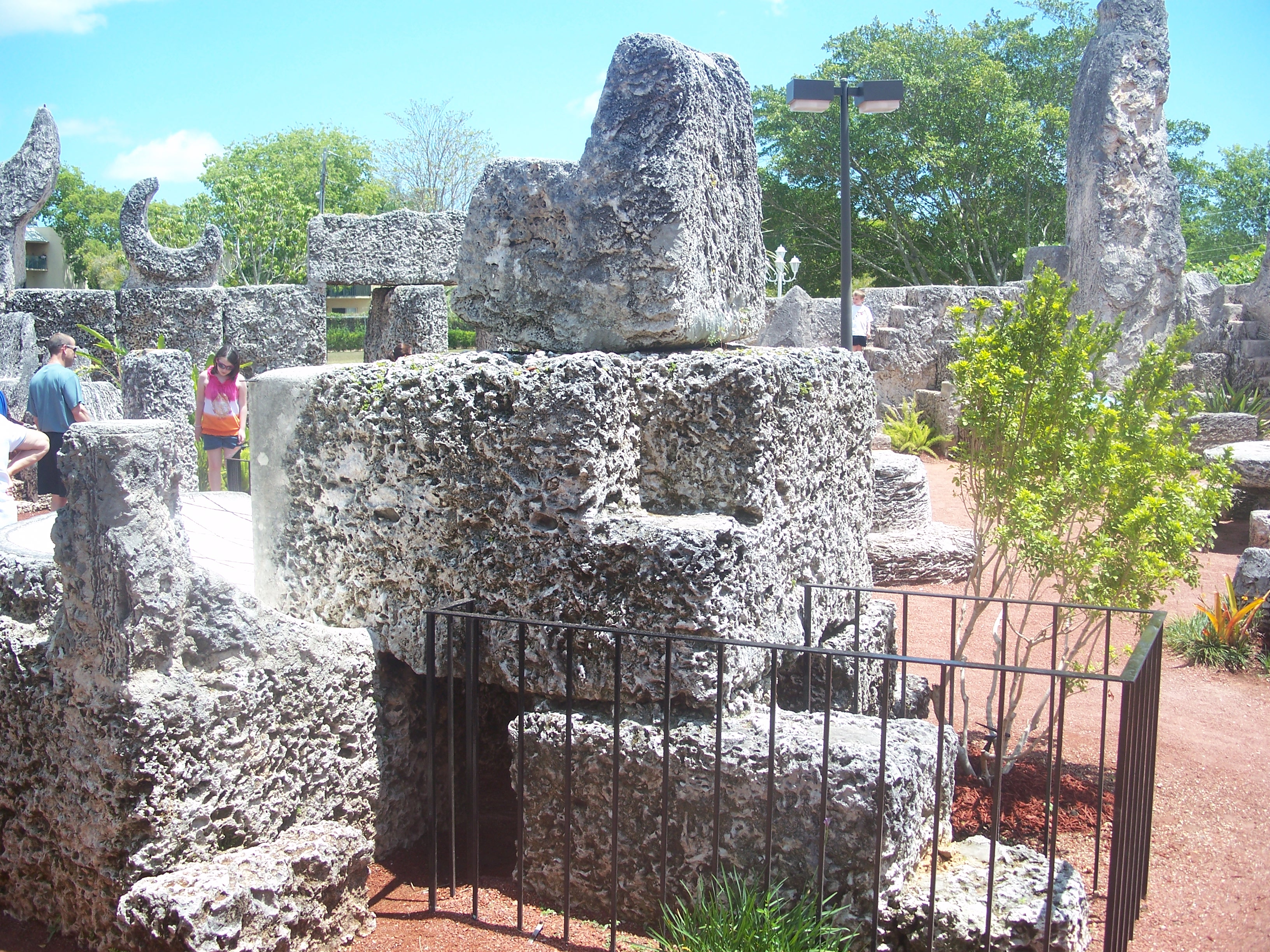 Homestead, Florida: Coral Castle: Rocking chair